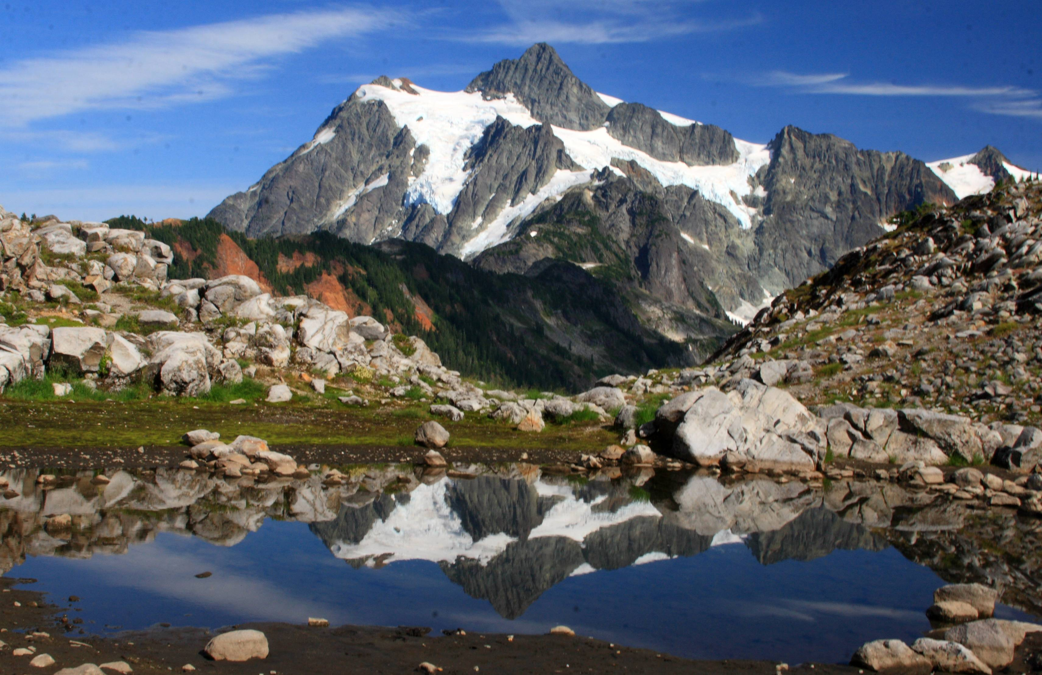 I took these photos in the Mt. Shuksan area of Washington State. It is about 55 miles east of Bellingham, WA. The road ends at a parking lot that includes cool places such as Picture Lake, Artists Point, and Heather Meadows - there are trails in all directions - some toward Mt. Shuksan, others to neighboring Mt. Baker - absolutely gorgeous scenery.